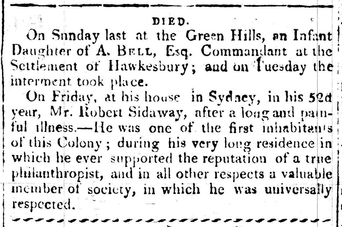 Death Notice of Robert Sidaway. It reads: On Friday, at his house in Sydney, in his 52d year, Mr. Robert Sidaway, after a long and painful illness. - He was one of the first inhabitants of this Colony; during his very long residence in which he ever supported the reputation of a true philanthropist, and in all other respects a valuable member of society, in which he was universally respected.